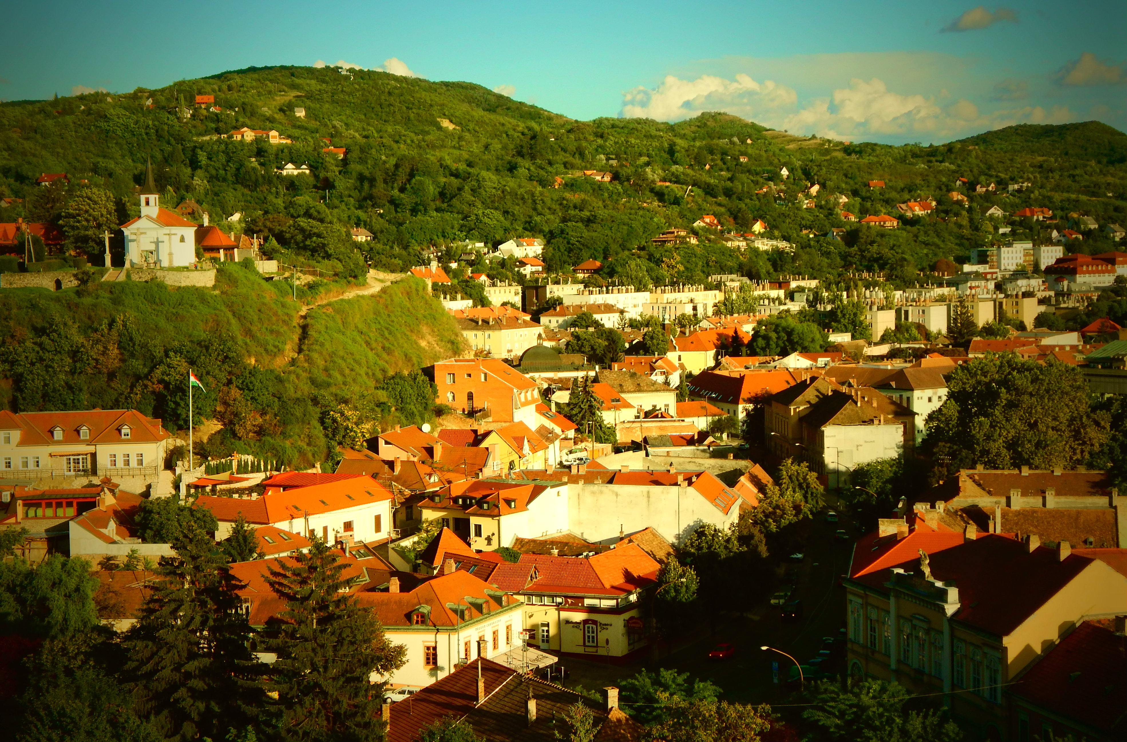 Esztergom panoramic view from the terrace Leopold